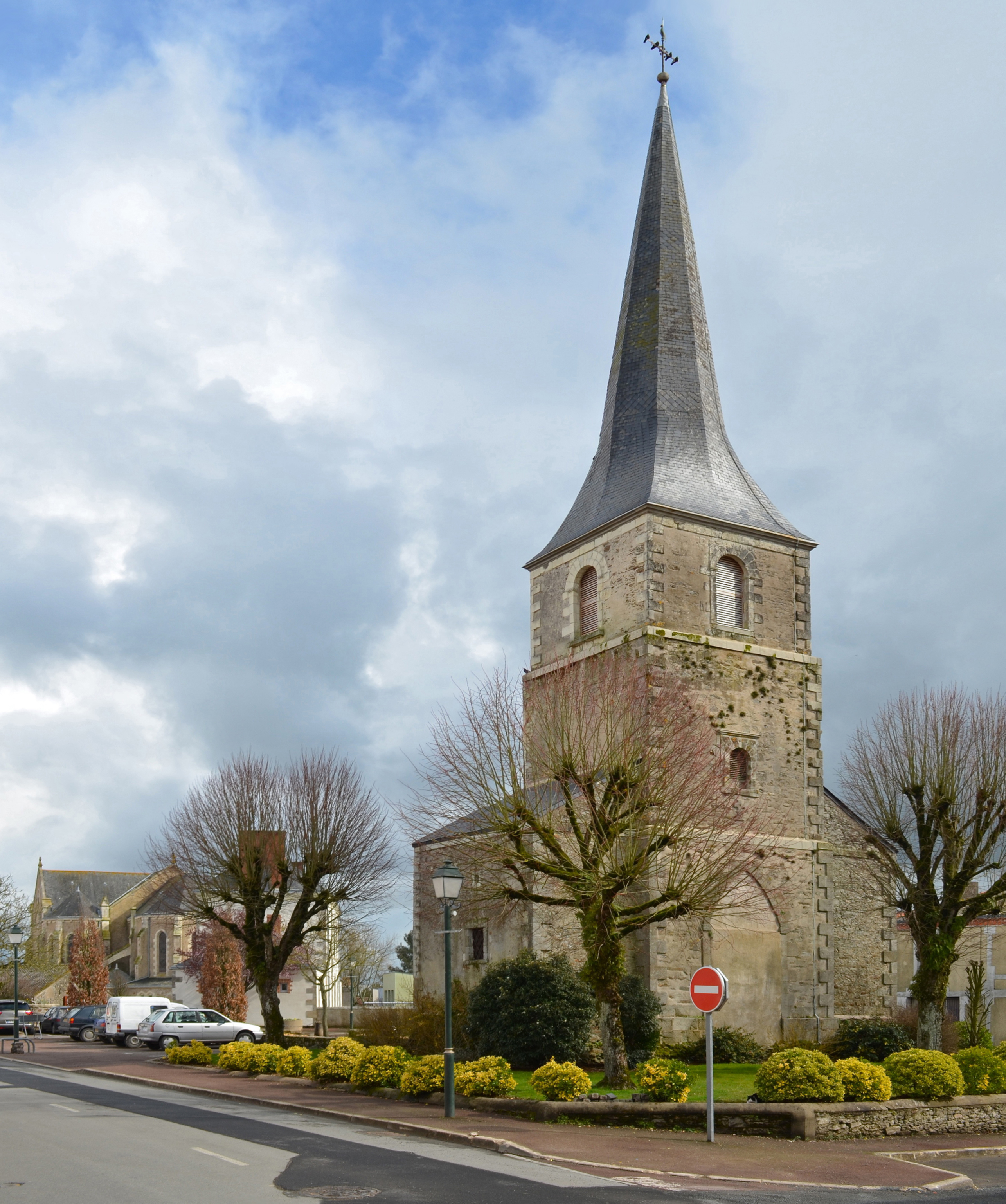 Isolated bell tower and church of Saint-Étienne-de-Mer-Morte (Loire-Atlantique, France)